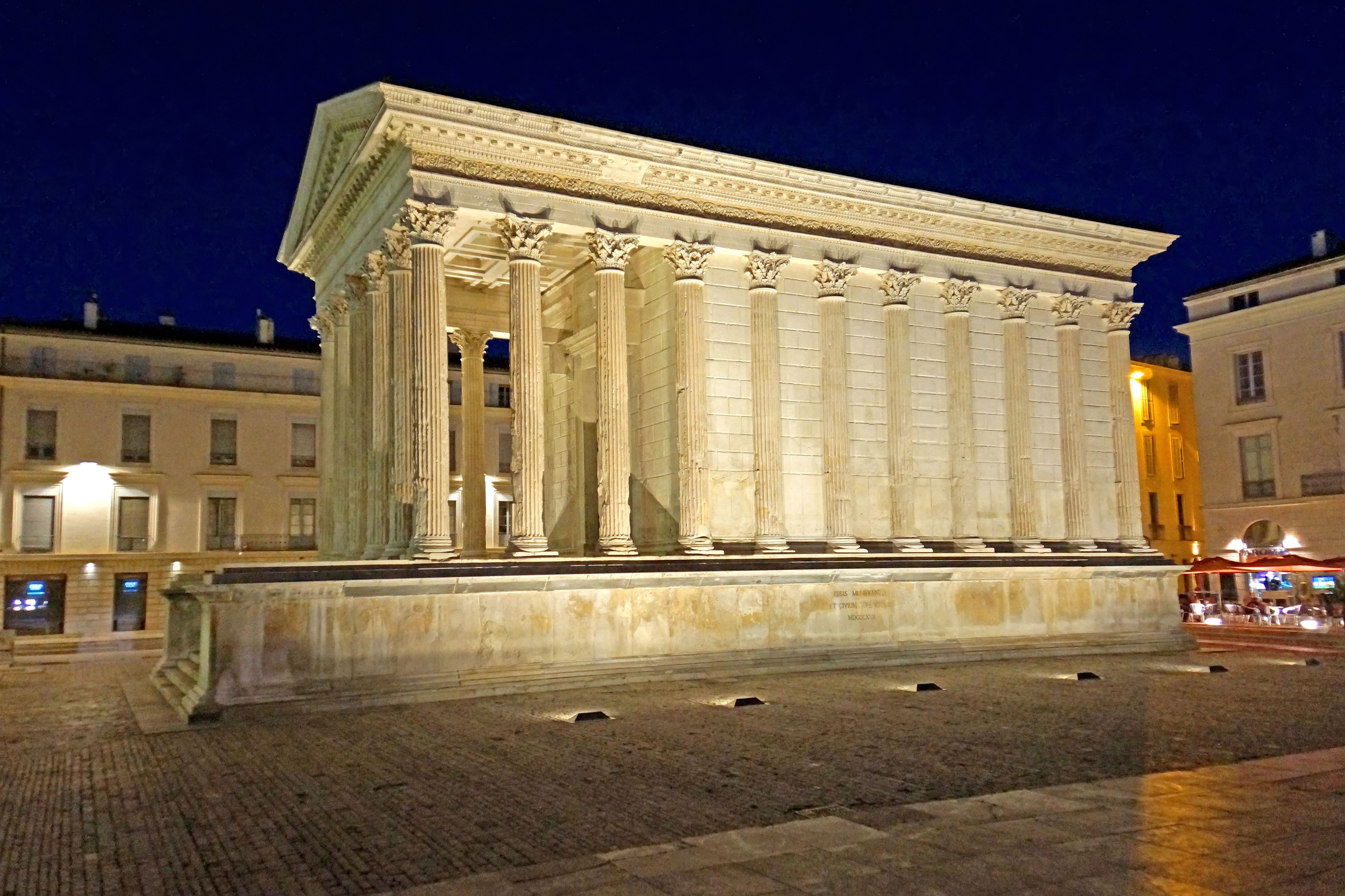 PLEASE, NO invitations or self promotions, THEY WILL BE DELETED. My photos are FREE to use, just give me credit and it would be nice if you let me know, thanks. The Maison Carrée (Square House) stands in the centre of town. Dating from the 1st century AD, it was dedicated to Caius and Lucius Caesar, adopted grandsons of Emperor Augustus. It has been used for various functions since the 11th century. It served as a consulate, a stable, apartments, and a church, as well as archives and a museum. Tourist information describes it as "the only fully preserved temple of the ancient world."